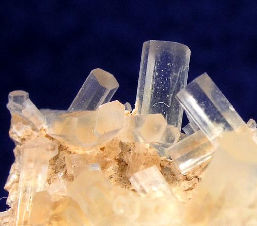 Thaumasite Locality: N'Chwaning Mines, Kuruman, Kalahari manganese fields, Northern Cape Province, South Africa (Locality at ) Size: 4.2 x 3.1 x 1.2 cm. An excellent plate of gemmy hexagonal Thaumasite crystals on matrix. The prismatic crystals average .5-.6 cm in length and they generously cover the matrix. This rare gem species is related to Ettringite and Sturmanite. Very aesthetic - good overall quality, gemminess and luster. Ex. Charlie Key.